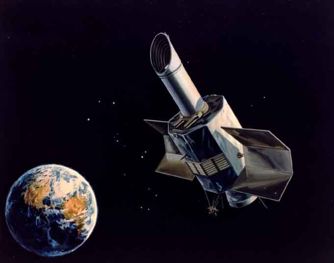 International Ultraviolet Explorer